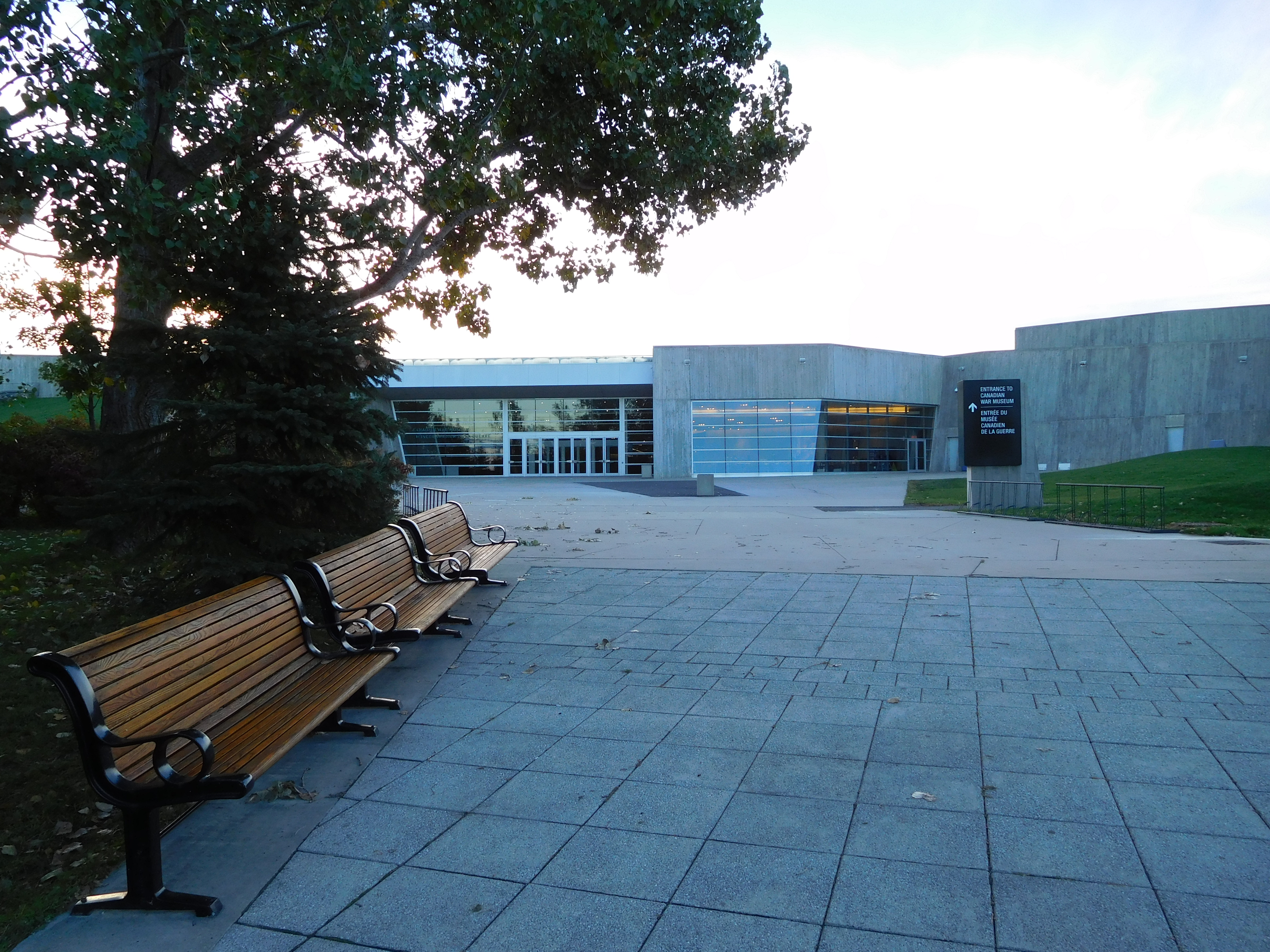 Canadian War Museum, 1 Vimy Pl, Ottawa